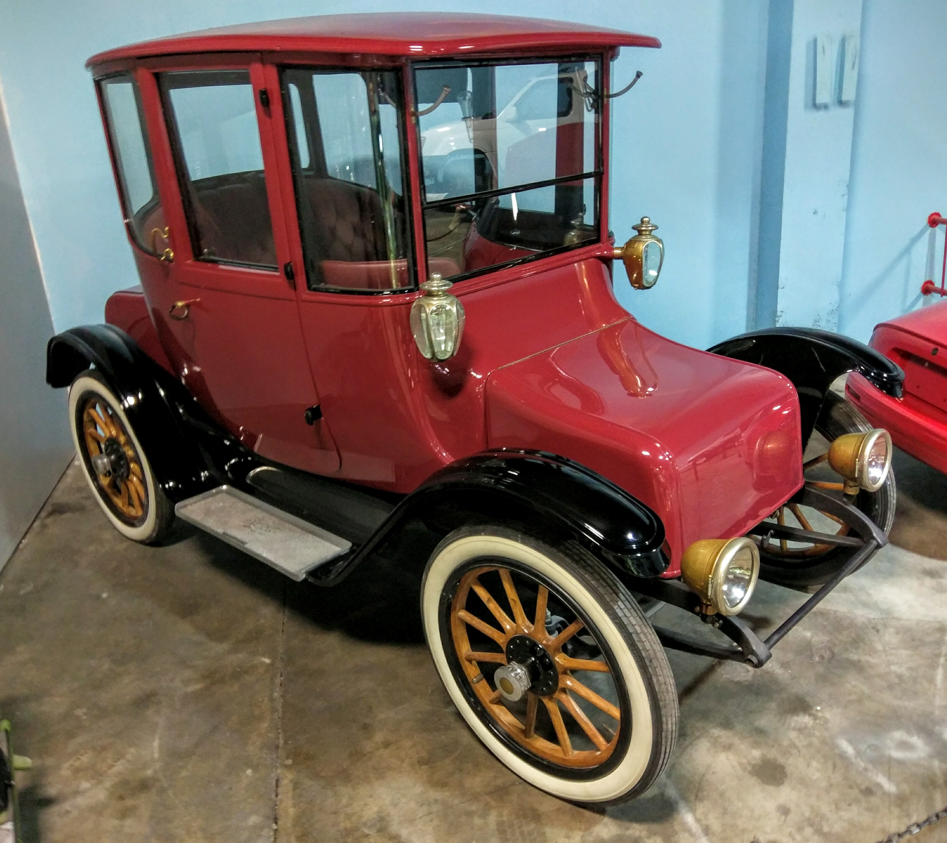 A 1911 Detroit Electric on display at the California Automobile Museum. Photo by Jim Heaphy.